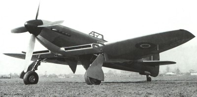 Hawker Tempest Mk I (HM599) seen from the bottom up.